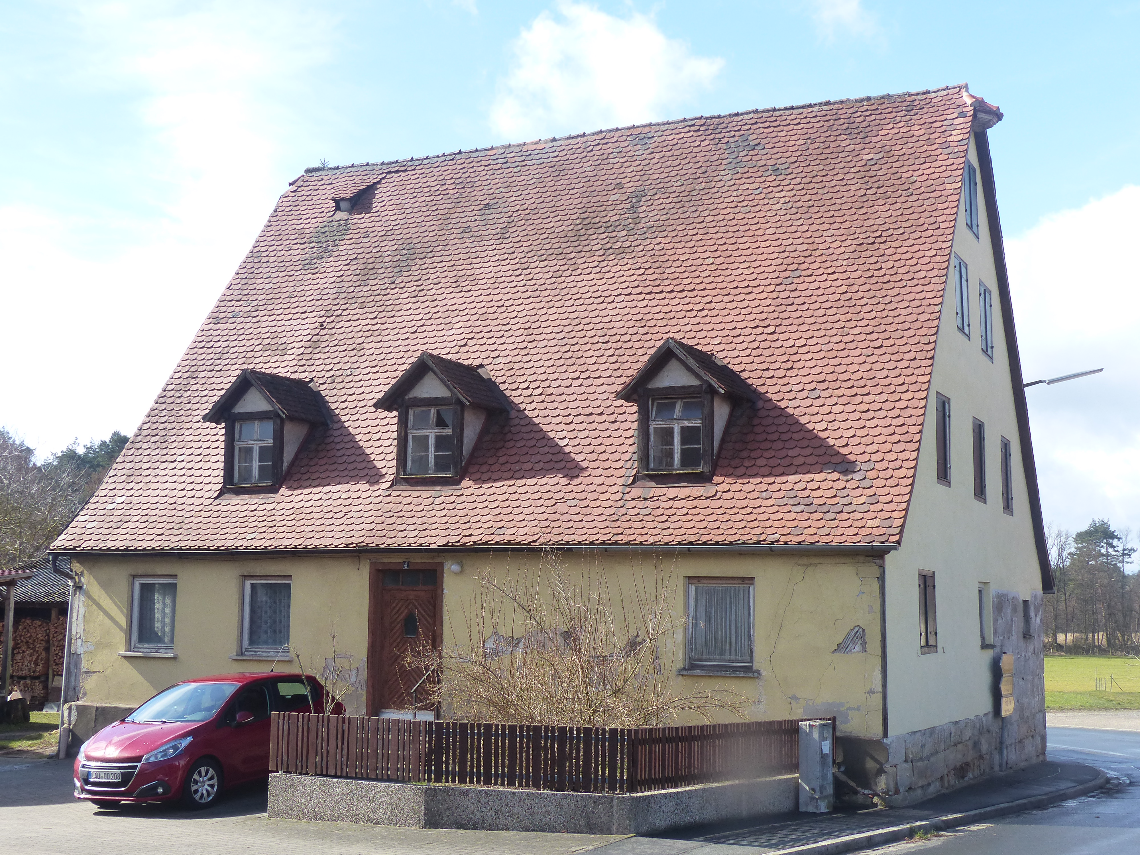 A farmhouse in the village Herpersdorf, a part of the municipality of Eckental